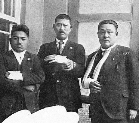 Minseito Ingaidan members